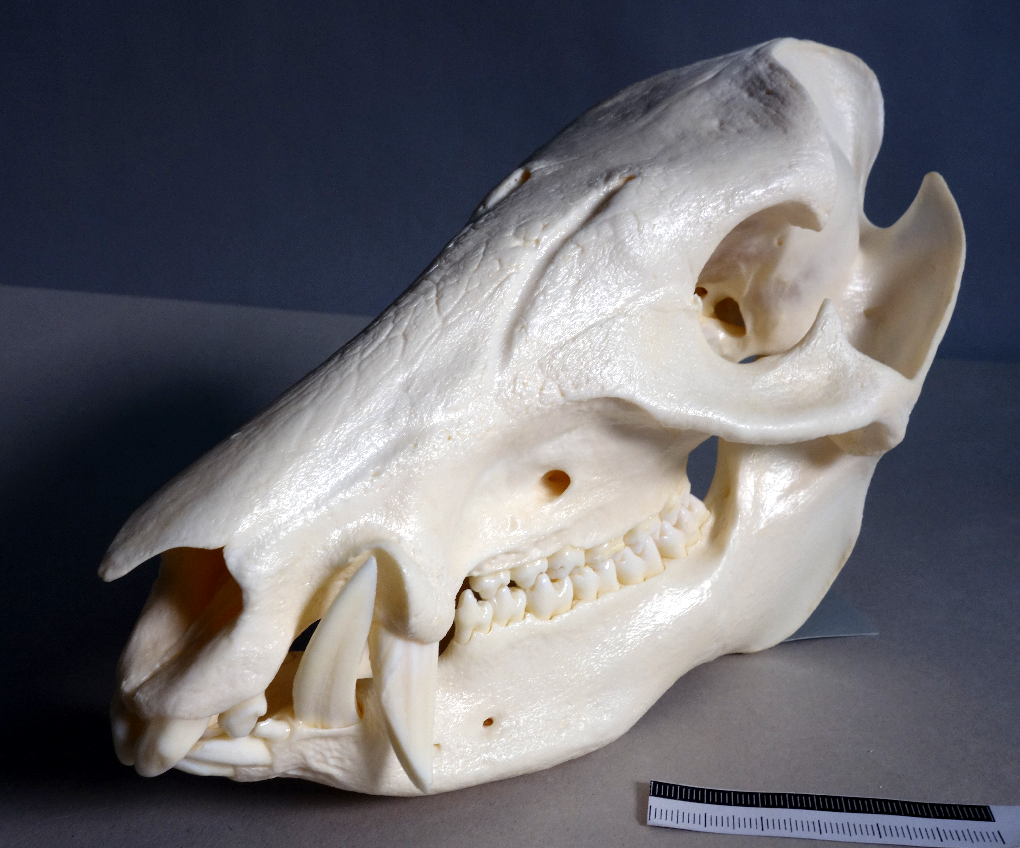 Collared peccary Pecari tajacu, skull, Coll. Museum Wiesbaden